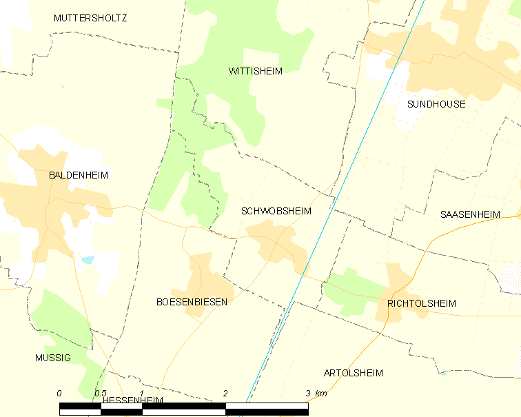 Map of French municipality